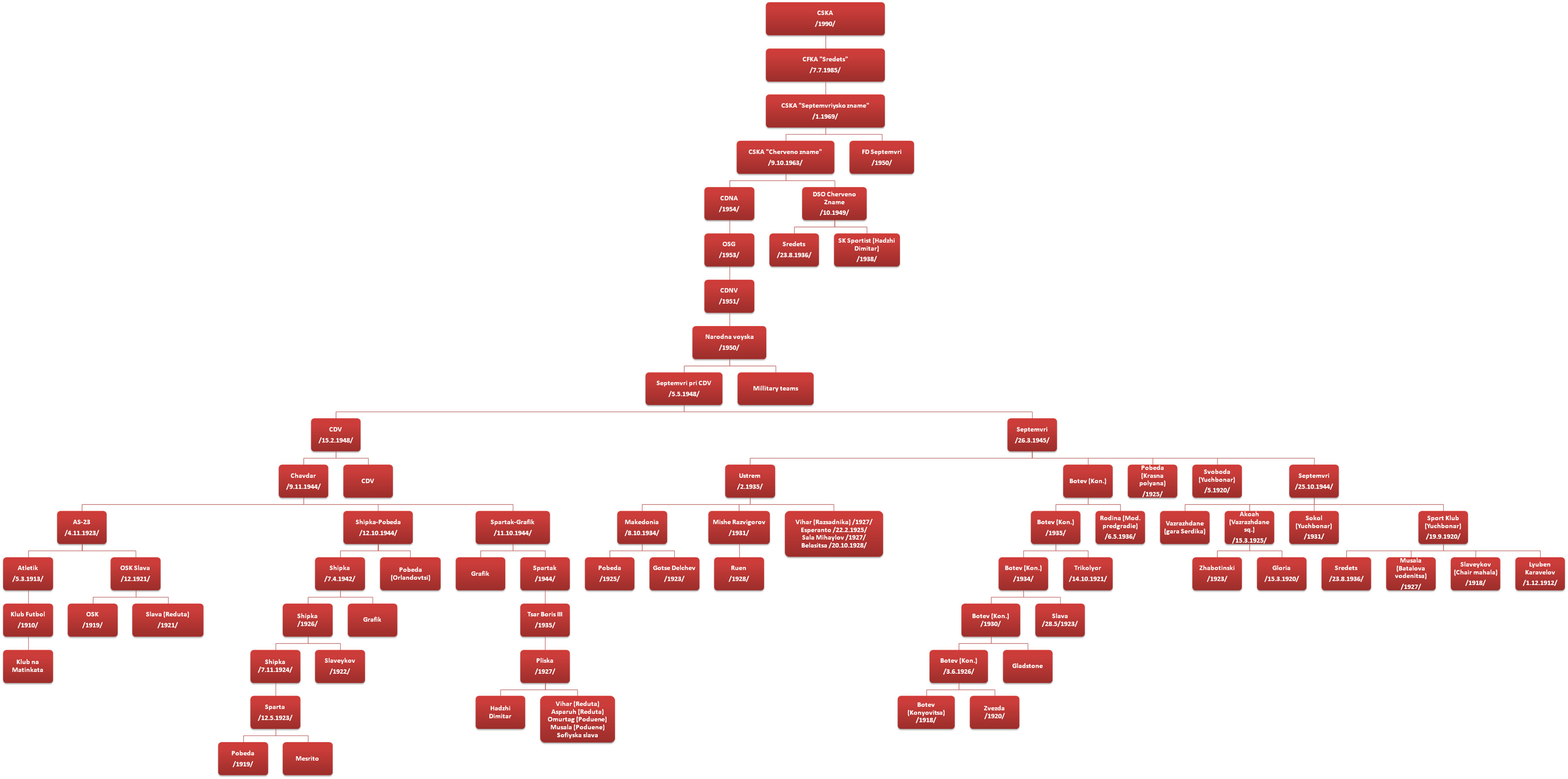 Sheme of PFC CSKA Sofia's roots. The sheme is based on sheme of Hristo Hristov(chicho Graf) created on 4 march 2005 as seen on BNT and PFC CSKA Sofia's movie "Red and gold".